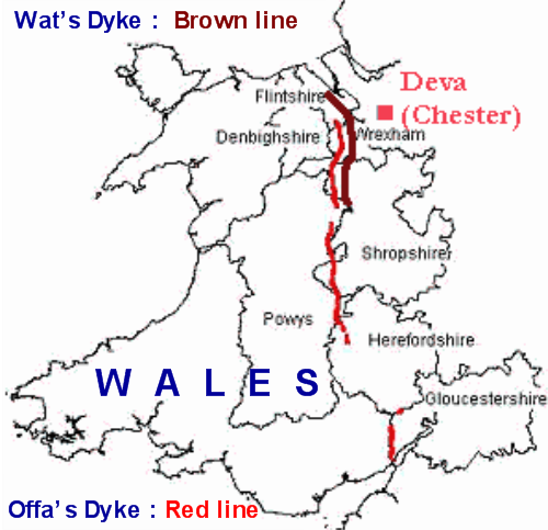 I have done a map of Wales with my software and added data about Wat's Dyke and Offa's Dyke.